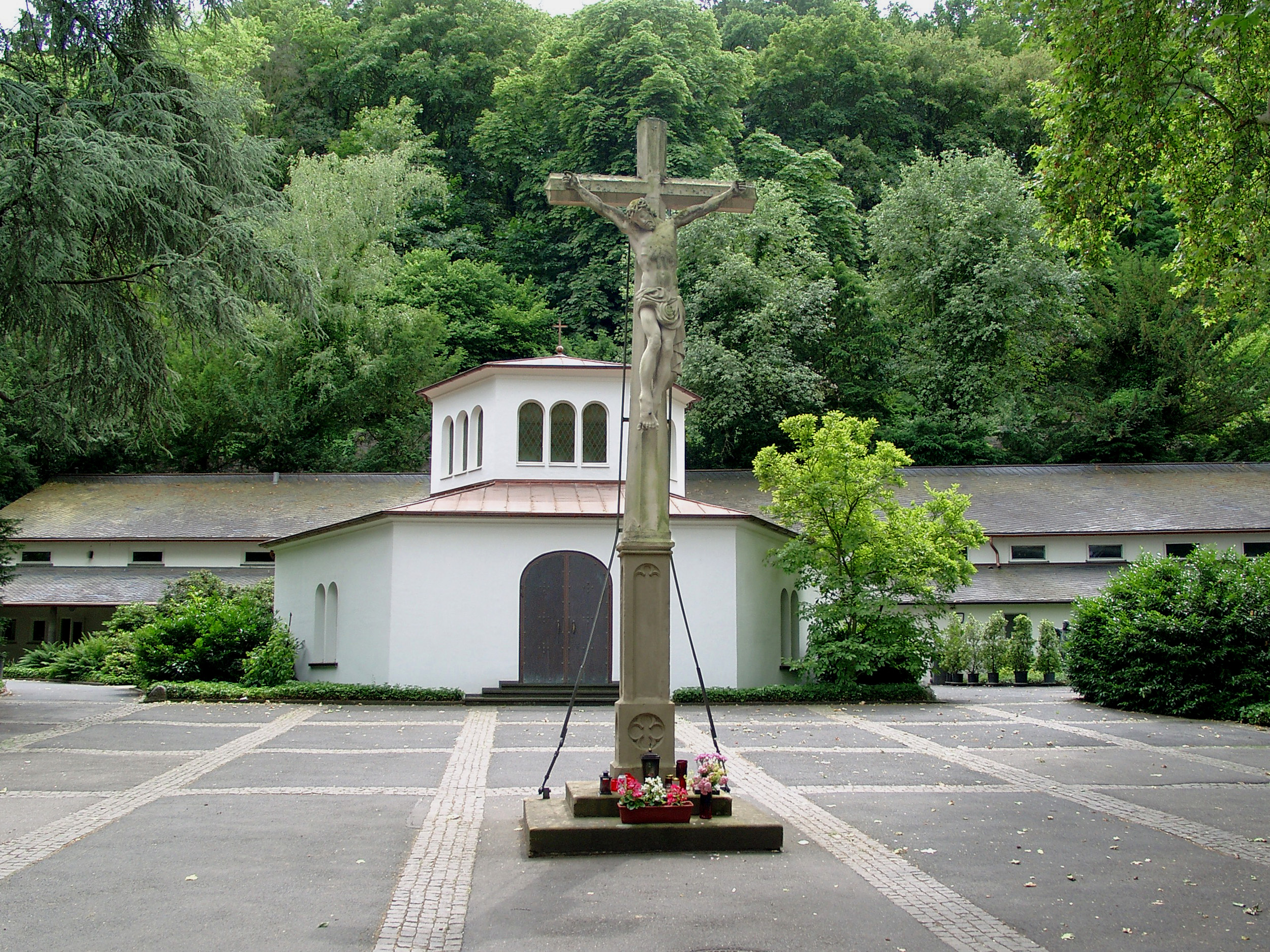 Cross of the main cemetery in Koblenz